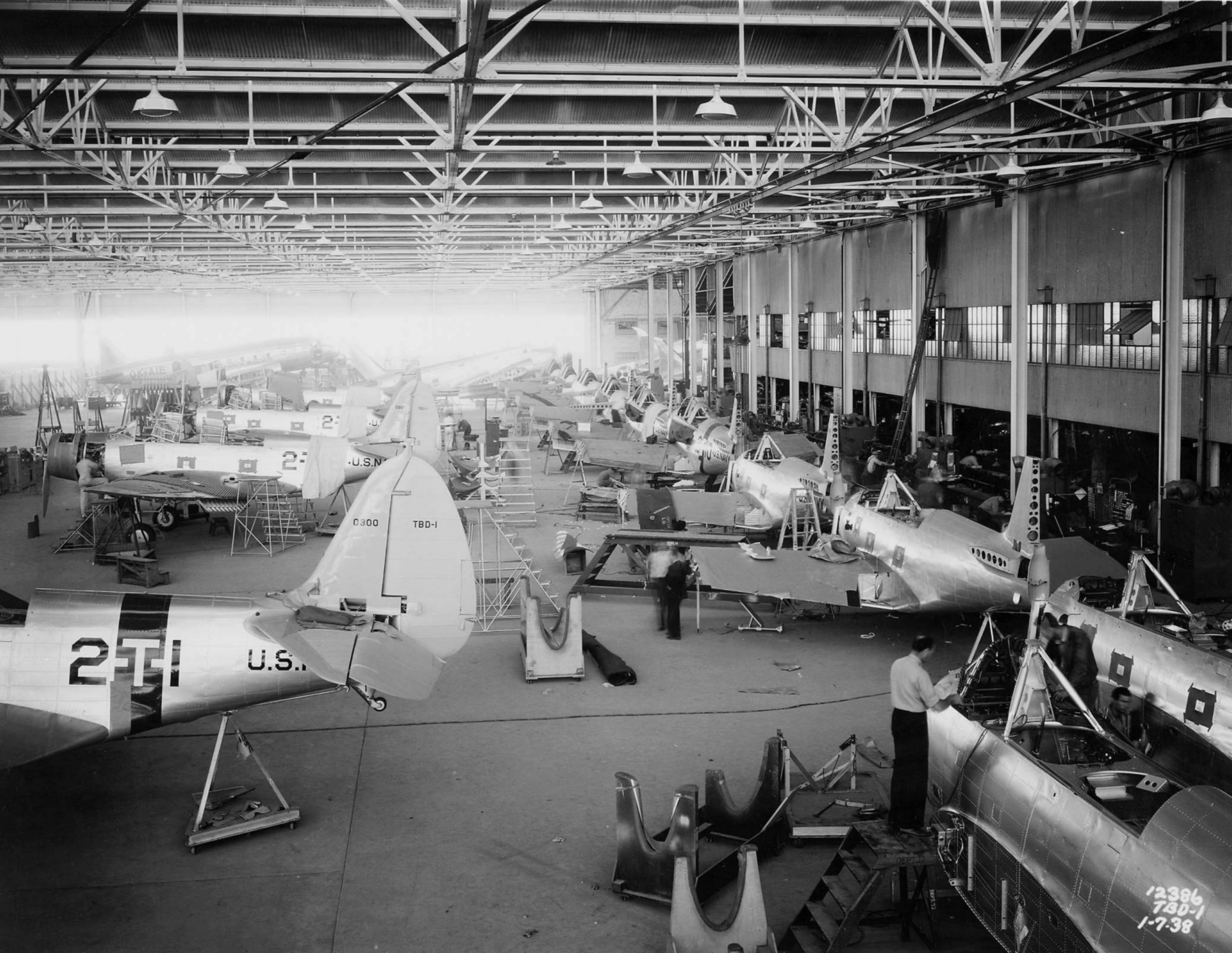 U.S. Navy Douglas TBD-1 Devastator torpedo bombers pictured in various stages of assembly at Douglas Aircraft Company's Santa Monica, California (USA), plant. Note that the aircraft already carry the markings of Torpedo Squadron 2 (VT-2), which received its first delivery of Devastators in 1938.The TBD-1 BuNo 0300 was lost with the USS Lexington (CV-2) on 8 May 1942, BuNo 0301 was lost in a barrier crash 6 January 1939. Visible in the background is the DC-3-220A (c/n 2023). This aircraft was assembled by Fokker and delivered to Czecnoslovakia as "OK-AIE". On 24 August 1939 it was taken over by the German Lufthansa (as "D-AAIE Mährisch-Ostrau"). Damaged on 14 August 1944 during a day attack on Echterdingen, it was written off on 9 December 1944. The other plane seems to be an USAAF B-18 Bolo.